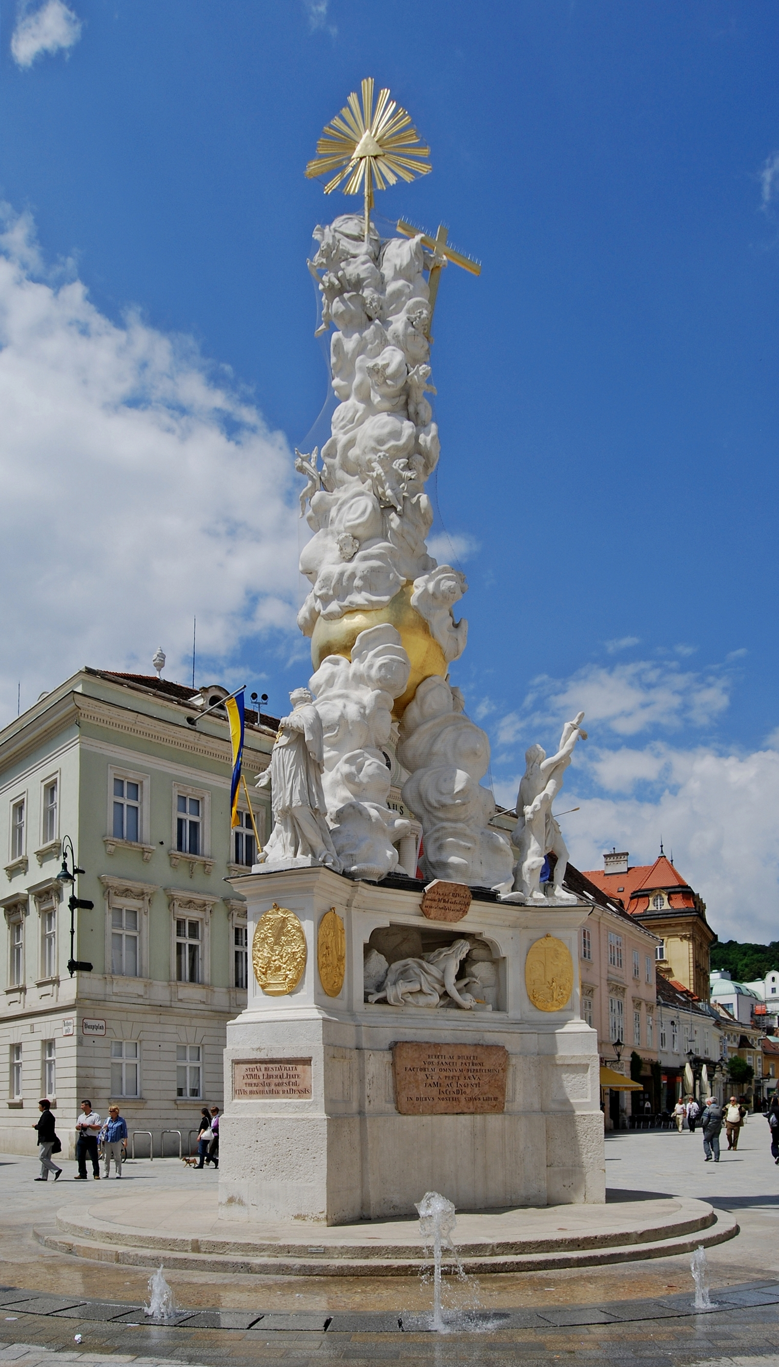 Marian and Holy Trinity column at Baden.